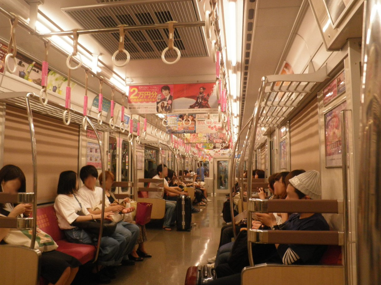 The interior of a women-only car on a Osaka Subway Midosuji Line 30000 series EMU